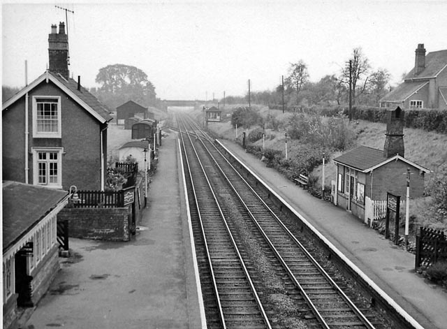 Bredon Station. View southward; towards Cheltenham, Gloucester and Bristol; ex-Midland Derby etc. - Birmingham - Cheltenham - Gloucester - Bristol main line. Station closed 4/1/65. (Where I first watched trains, in 1938).